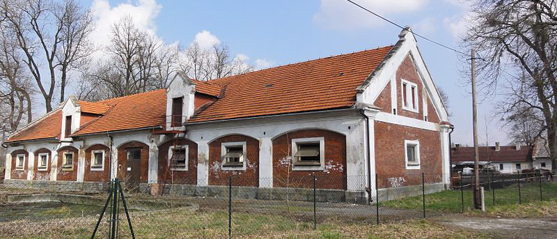 Stud farm in Ochaby